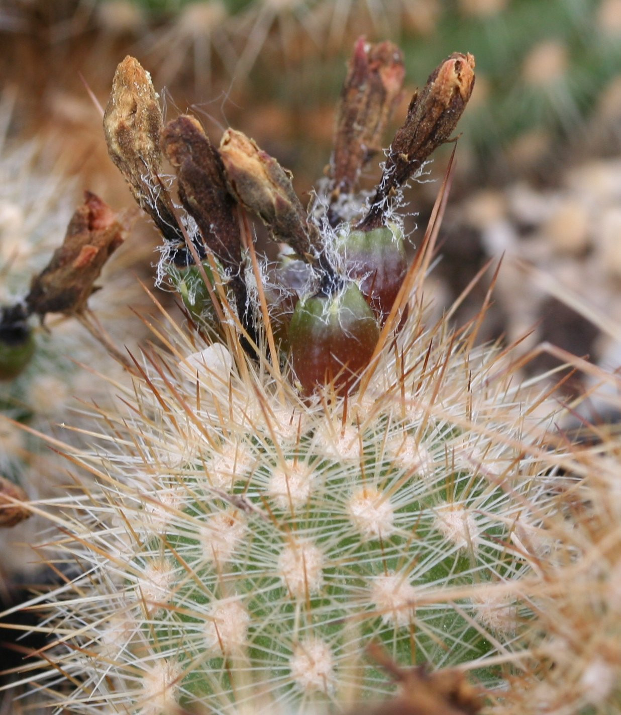 Früchte an Mila caespitosa Date18 June 2007, 14:17:46SourceOwn workAuthorMichael Wolf